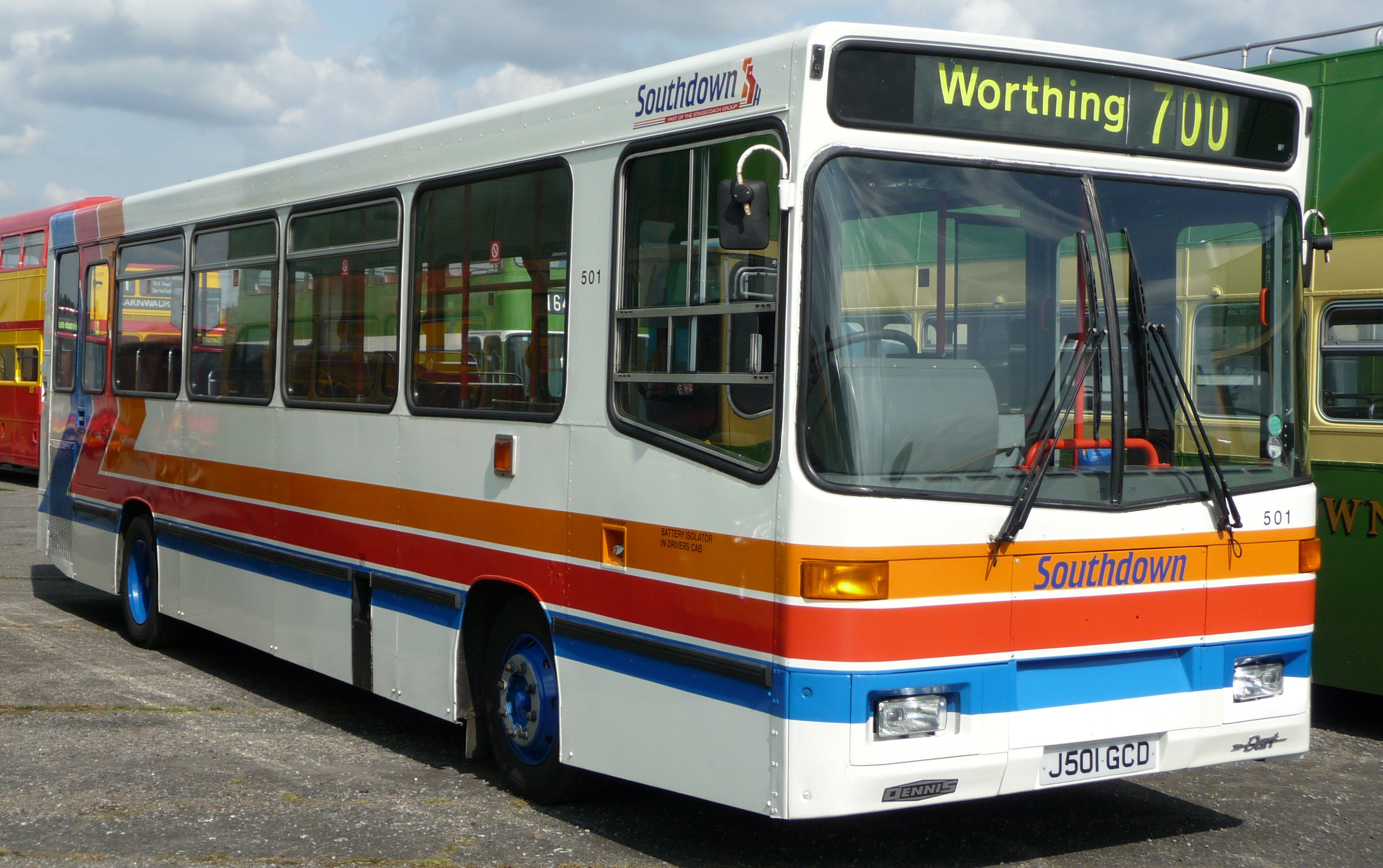 Preserved Stagecoach Southdown 501 (J501 GCD), a Dennis Dart/Alexander Dash, at the 2009 Cobham bus rally at Wisley Airfield.